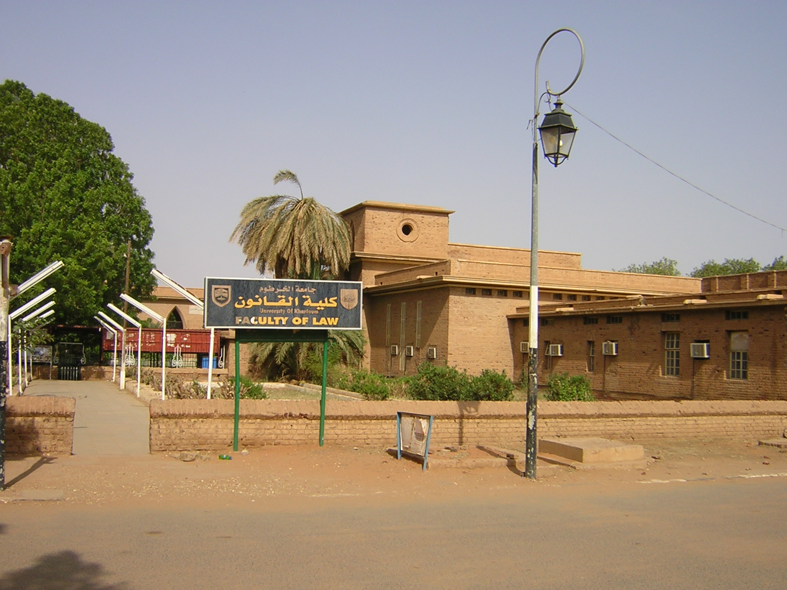 Faculty of Law of the University of Khartoum, Khartoum, Sudan.